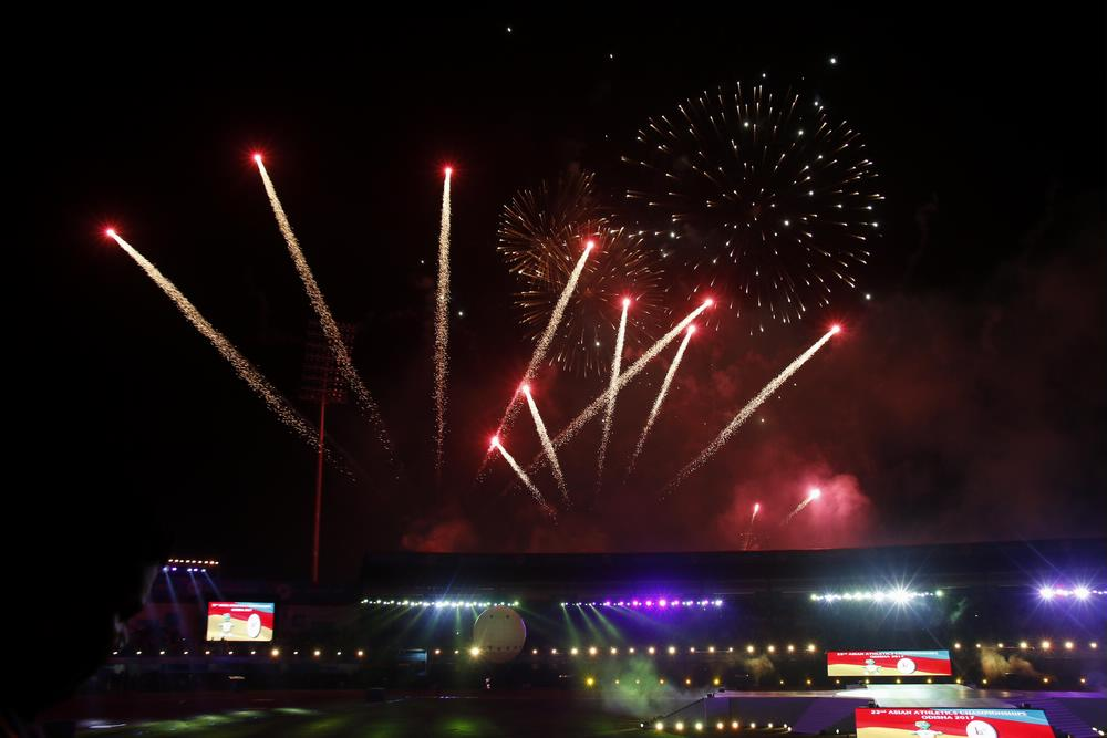 Athletes during 22nd Asian Athletics Championships in Bhubaneswar.